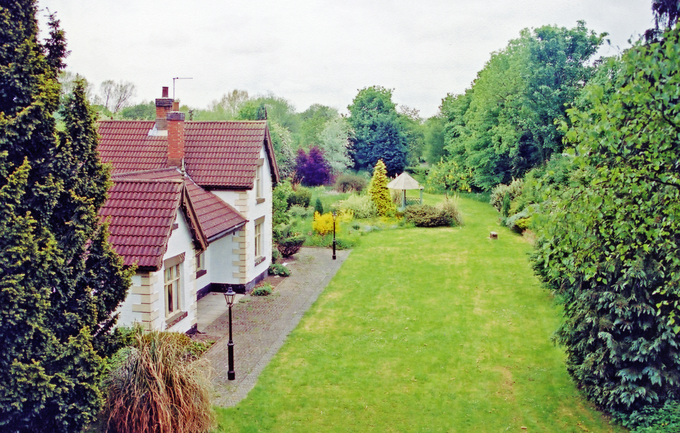 Llynclys: former station, 2001. View northward from the B4396 bridge, towards Oswestry and Whitchurch: ex-Cambrian Railways main line Whitchurch - Oswestry - Buttington - Welshpool - Machynlleth etc., closed Whitchurch - Buttington 18/1/65. In the opposite direction is now the Cambrian Heritage Railway's Llynclys South station, opened 2005 with track to Penygarreg. In 2009, the Cambrian Railways Society and Cambrian Railways Trust combined forces and the new group plan to operate from Gobowen and Oswestry through Llys to Blodwell